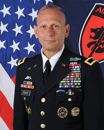 Brig. Gen. Donald C. Bolduc